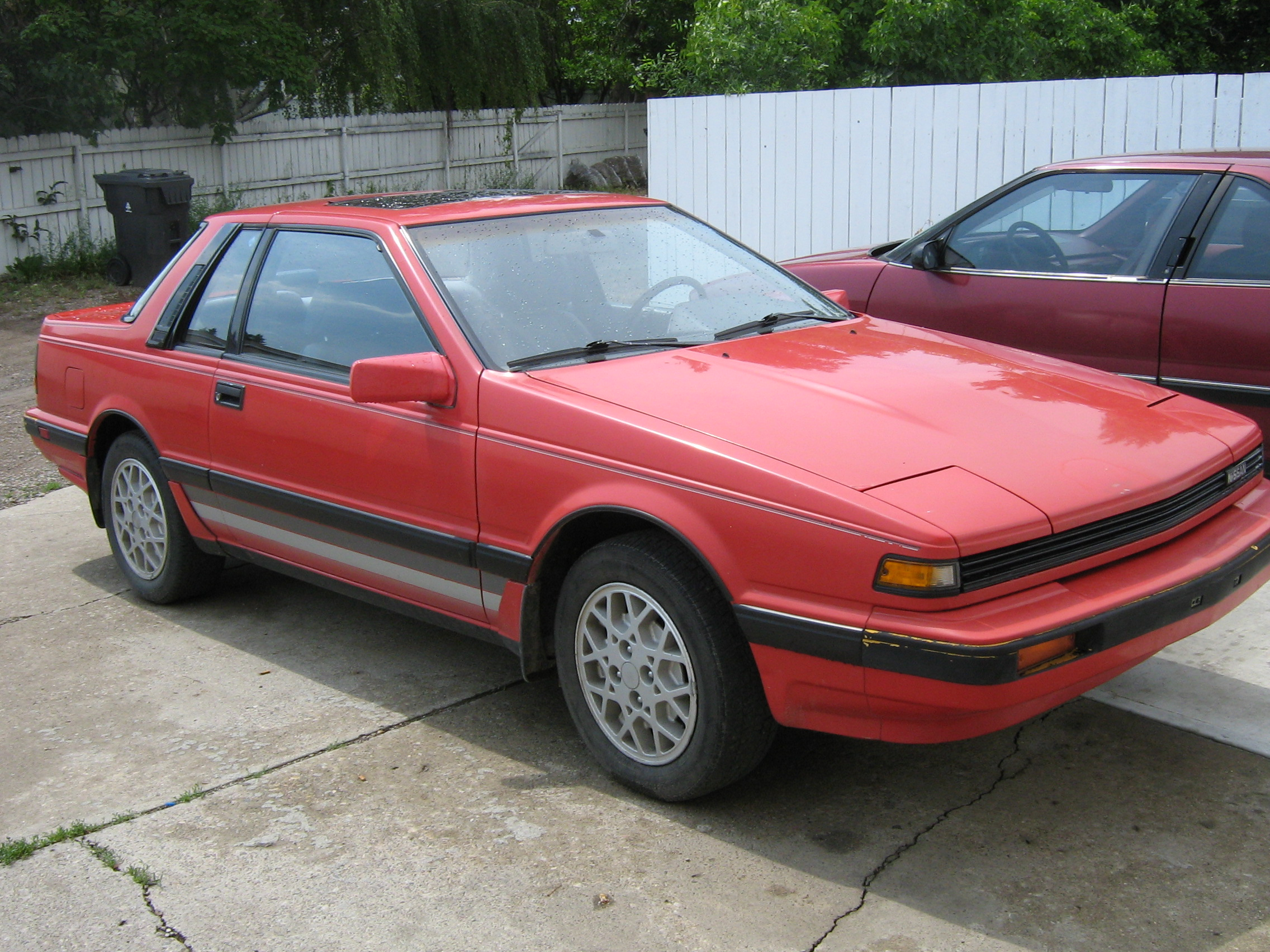 Nissan 200SX notchback